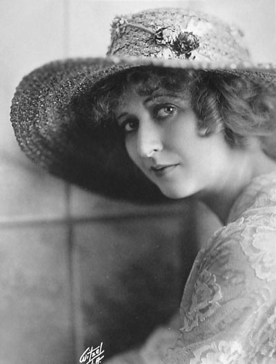 Rhea Mitchell